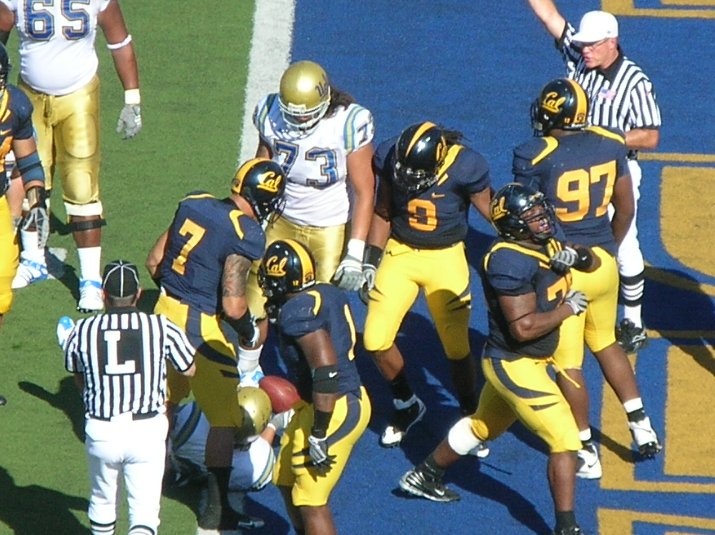 The Golden Bears stop the UCLA Bruins at the 1 yard line at a Cal home game. The Golden Bears won 41-20.